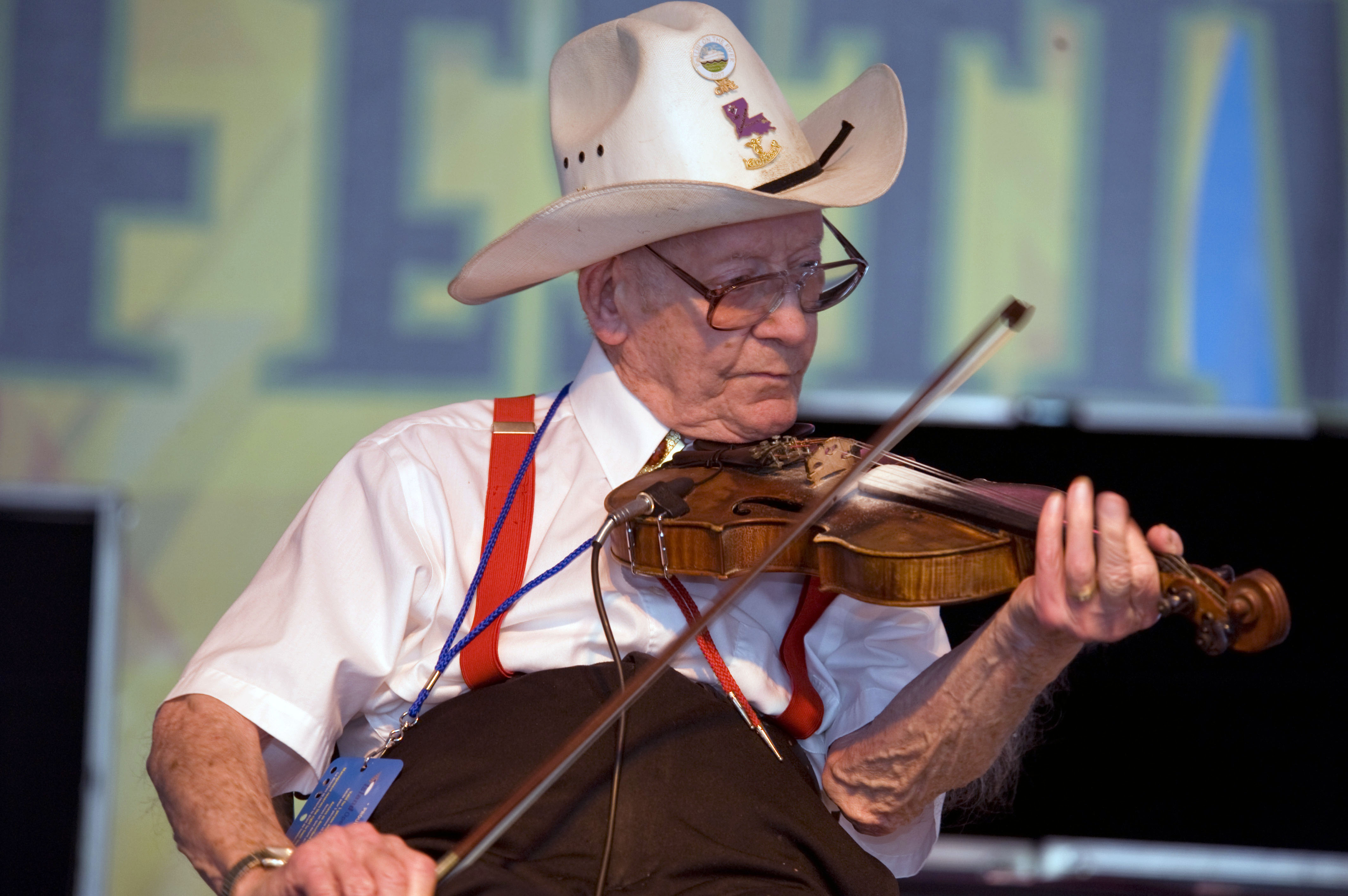 Luderin Darbone performs at Festival International de Louisiane in Lafayette, LA.